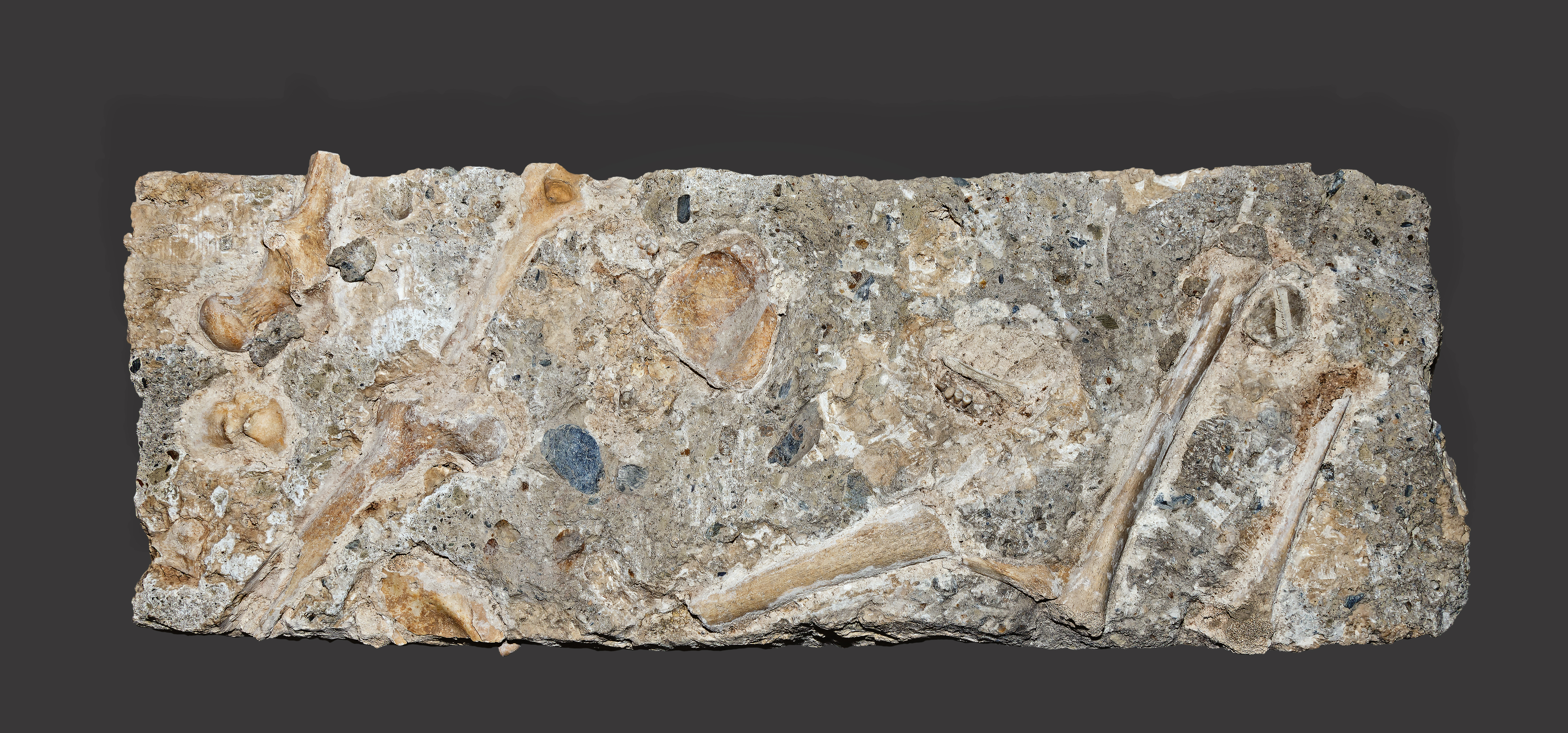 Homo sapiens bones. Stage: Holocene Bronze age 1800-1500 BC Locality: Lombrives Cave in Ornolac-Ussat-les-Bains, Ariège – France Collection: Jean-Baptiste Noulet 1882 Size : 925 × 342 × 106 mm